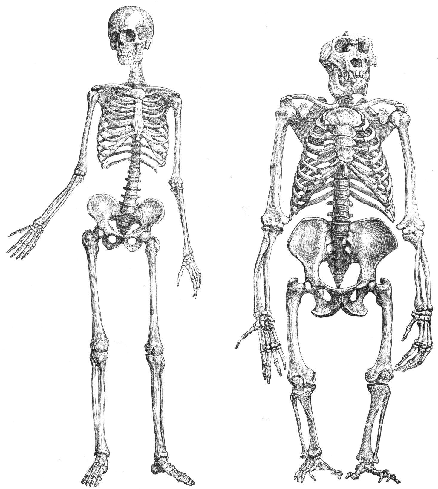 "Skeleton of human (1) and gorilla (2), unnaturally stretched." Size: 4.9 x 5.5 in² (12.4 x 13.9 cm²)